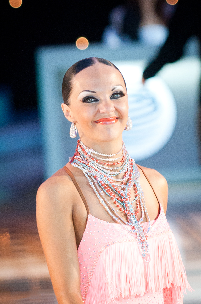 Melnicka Agnieszka (Melia)